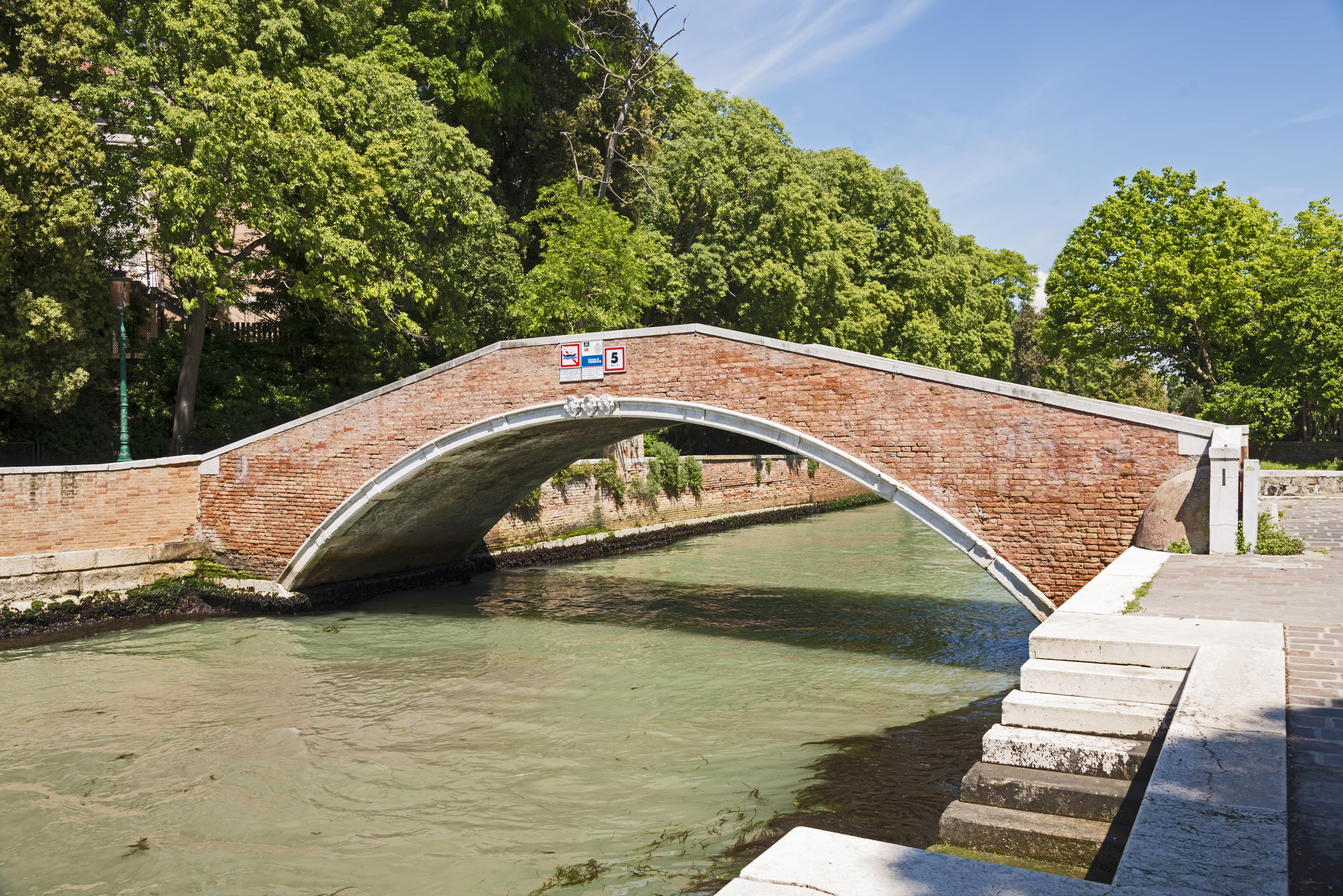 Ponte dei Giardini on Rio dei Giardini in Venice. Southern exposure, view to Viale Vittorio Veneto.